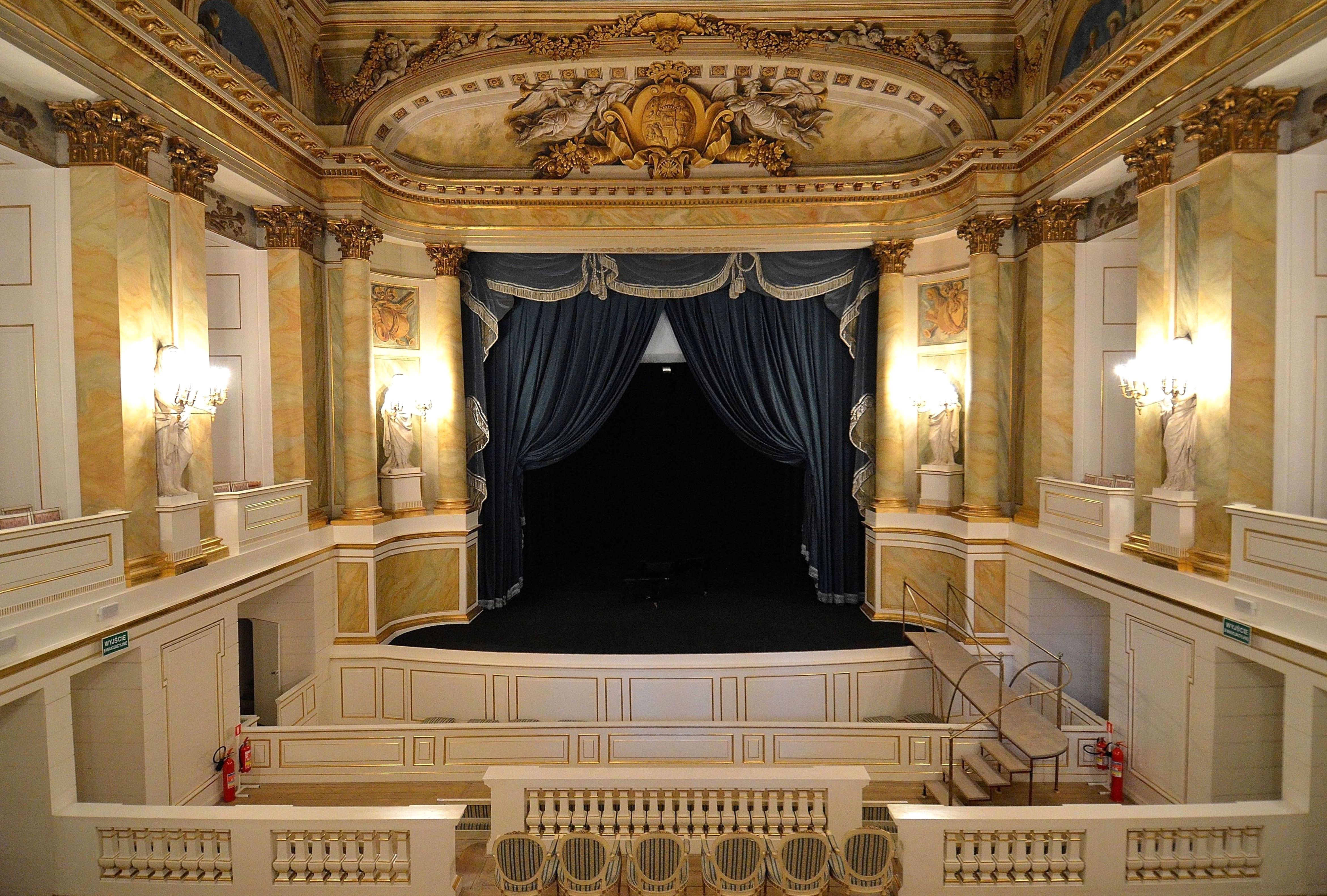 The Court Theatre at the Old Orangery, Łazienki Park in Warsaw (listed in the Register of Historic Monuments on 28.07.1973, reference no. 2/6)